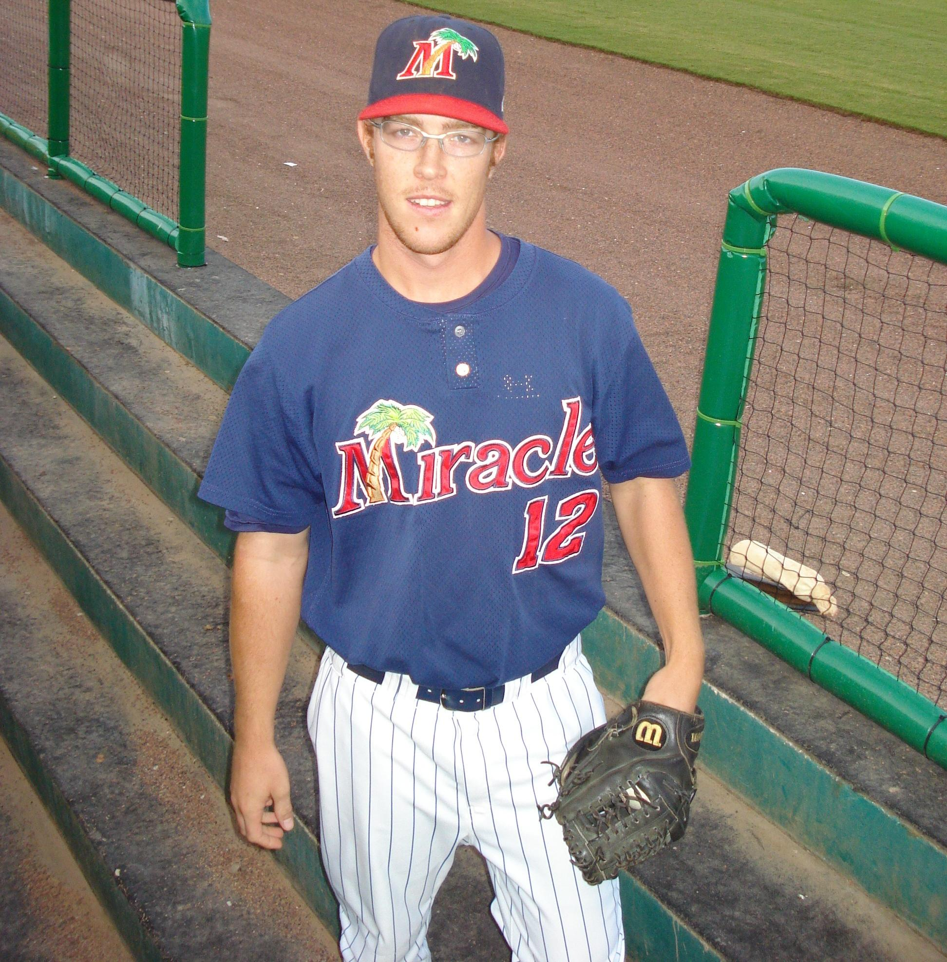 Matt before game 2 of the play offs